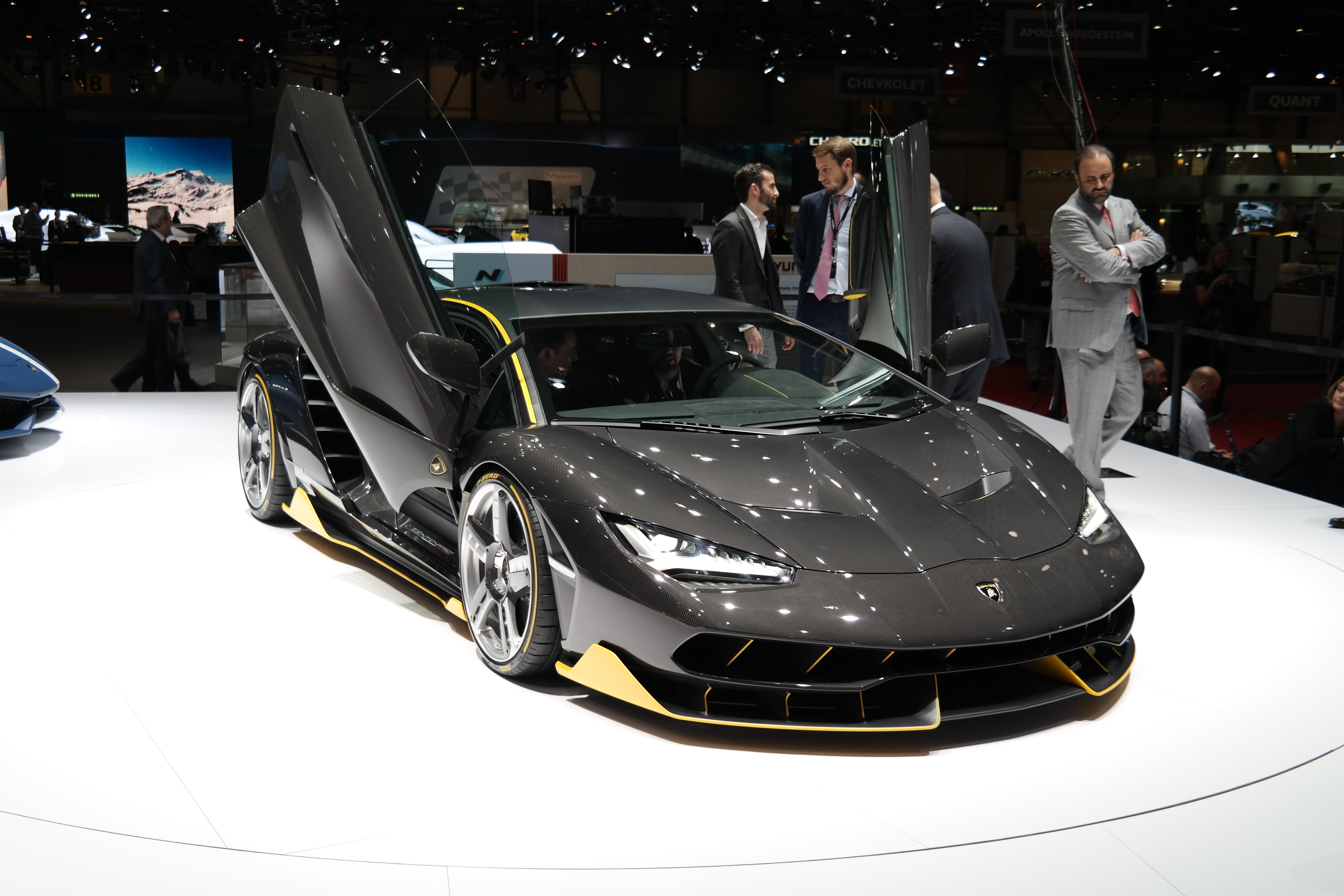 Geneva Motor Show 2016 (photo taken on the first press day)